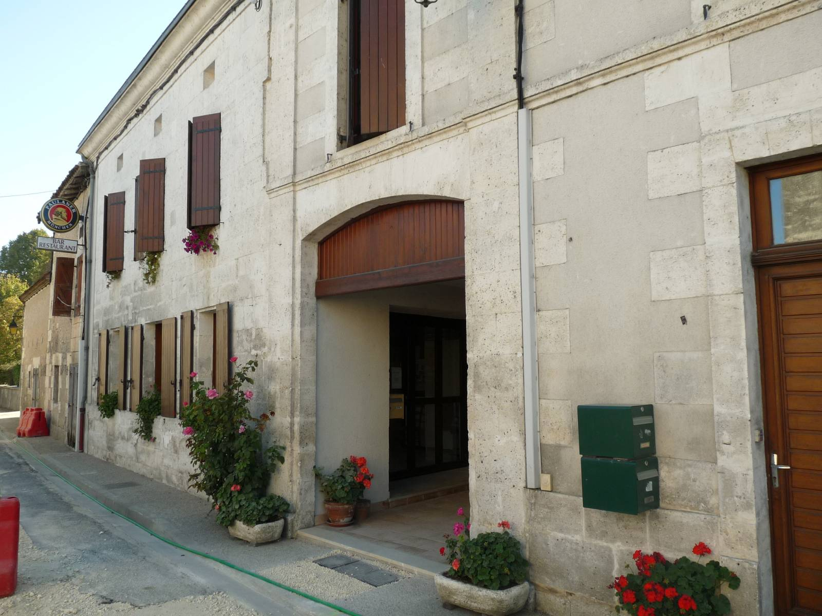 town hall